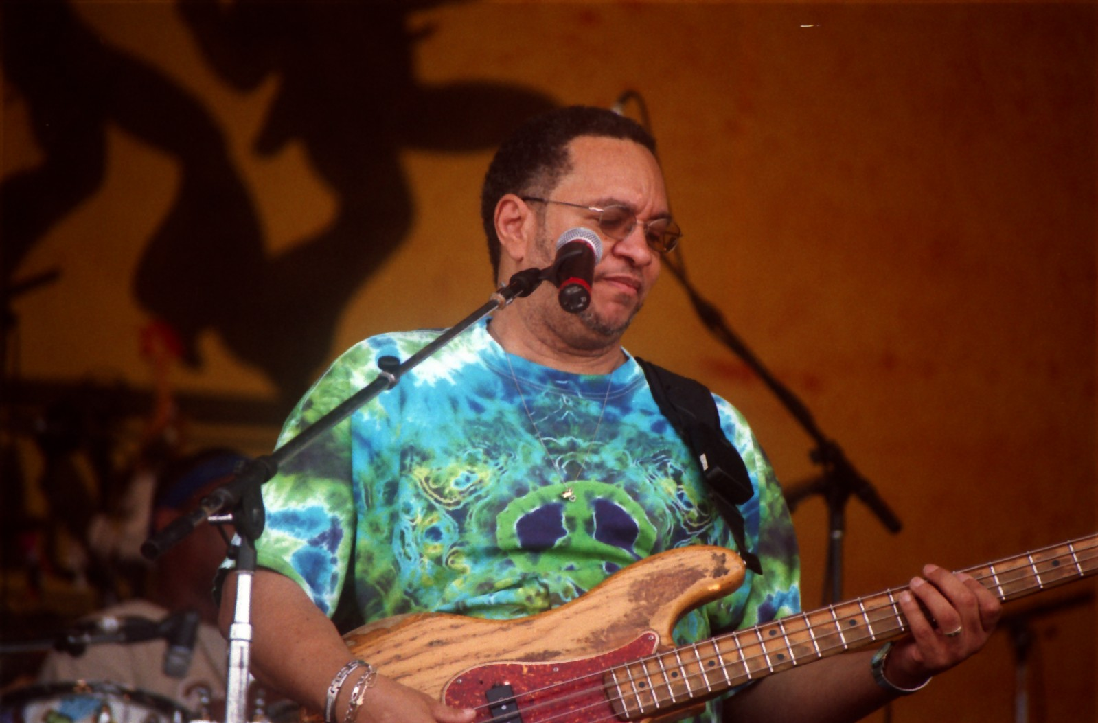 George Porter, Jr. at New Orleans Jazz & Heritage Festival